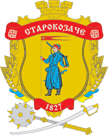 The coat of arms of the village of Starokozache, Bilhorod-Dnistrovskyi Raion, Odessa Oblast, Ukraine